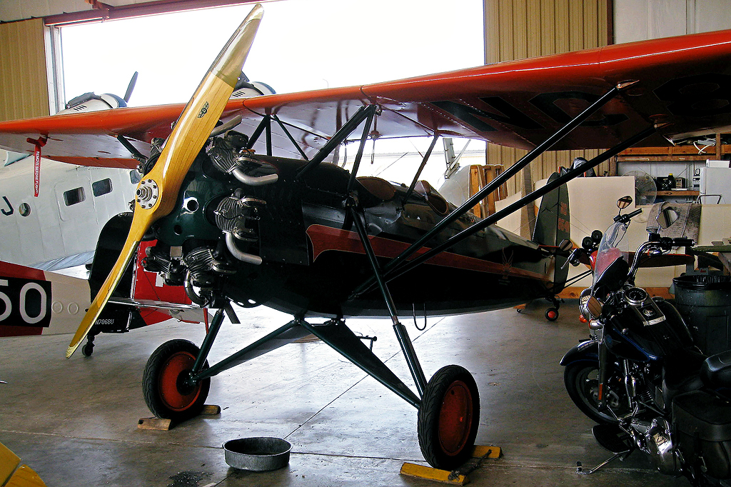 Davis D-1-W light aircraft NC854W of 1929 at Bartow, Florida